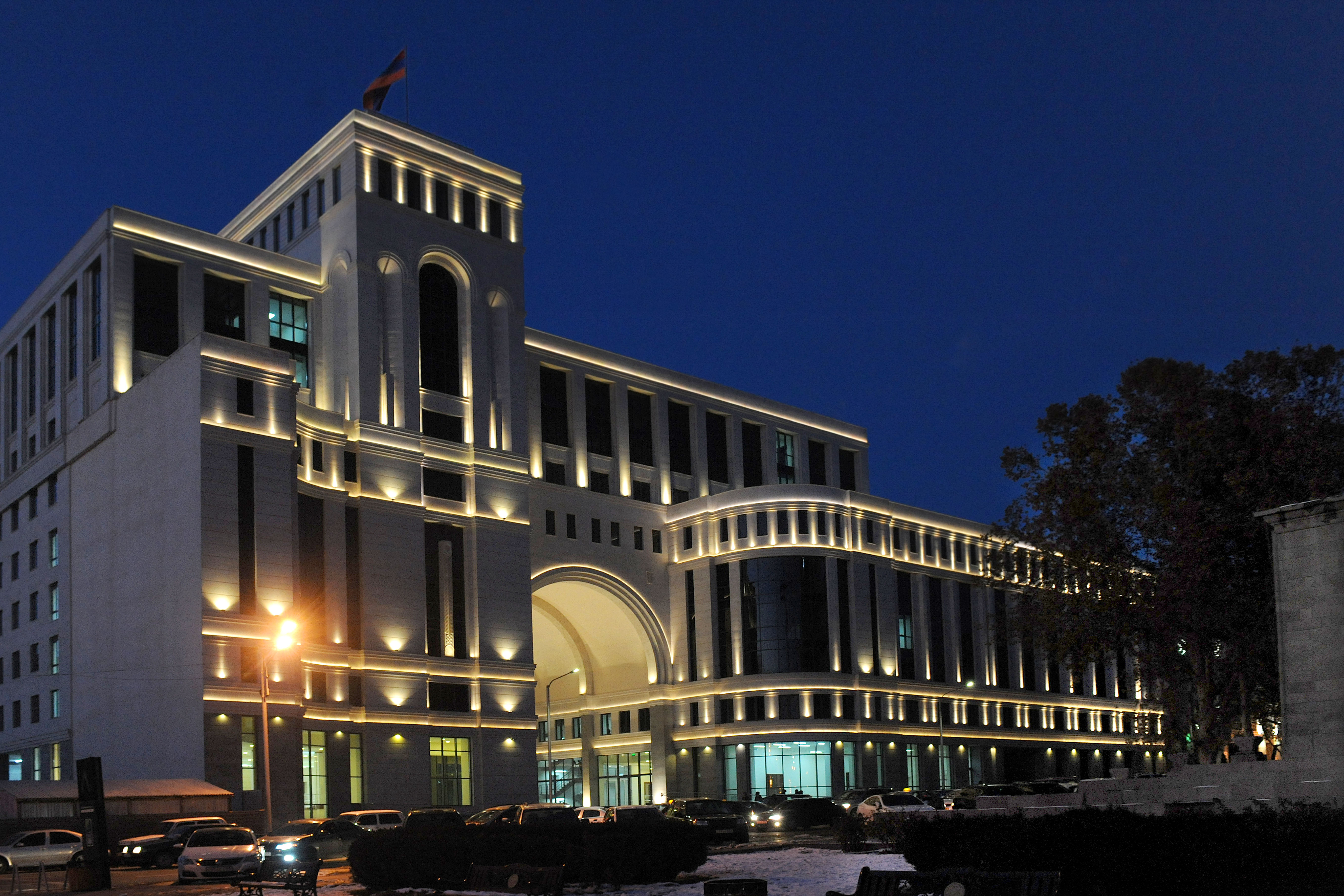 Կառավարական նոր մասնաշենք